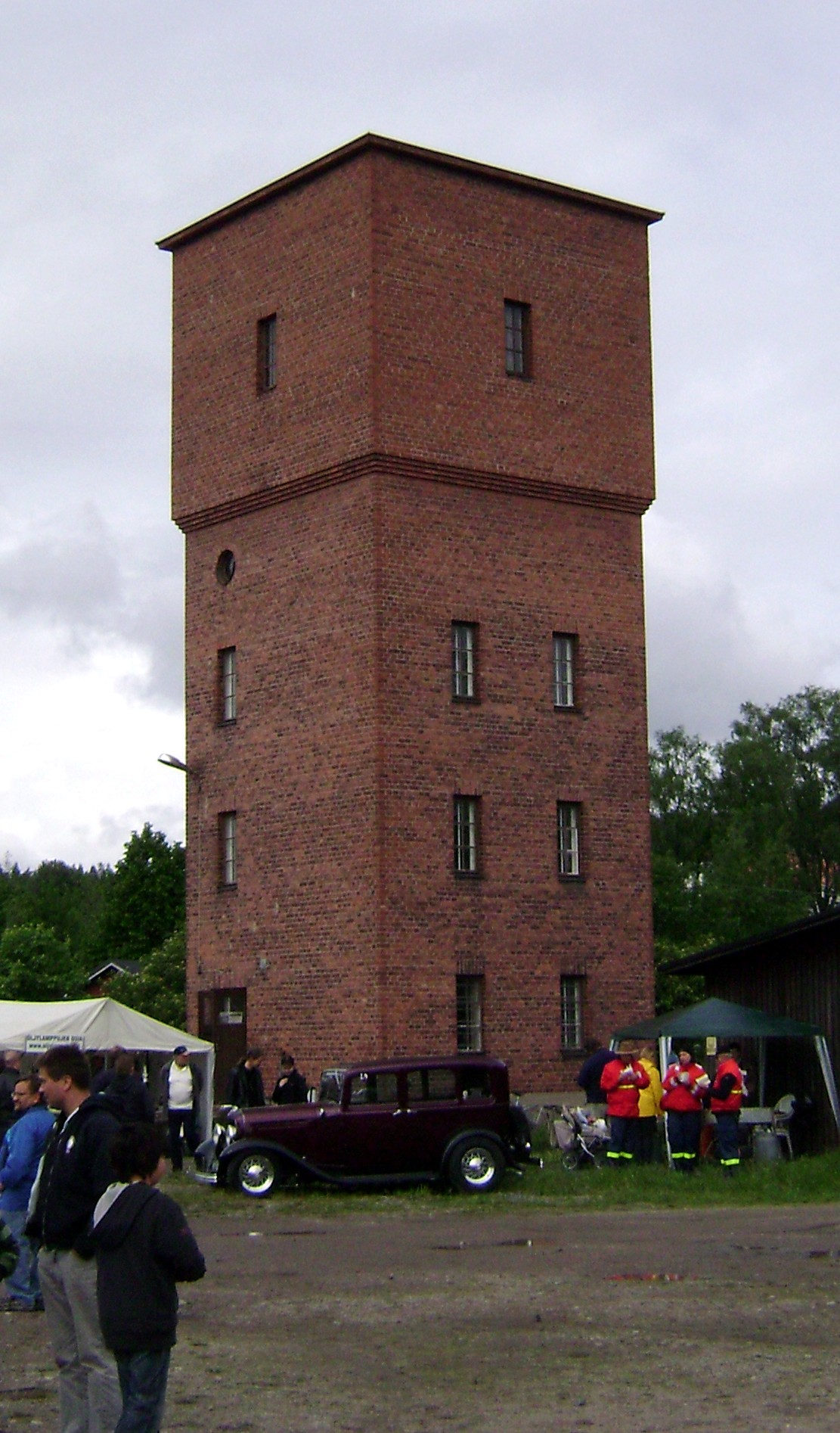 Old water tower in Mytäjäinen depot in Lahti.